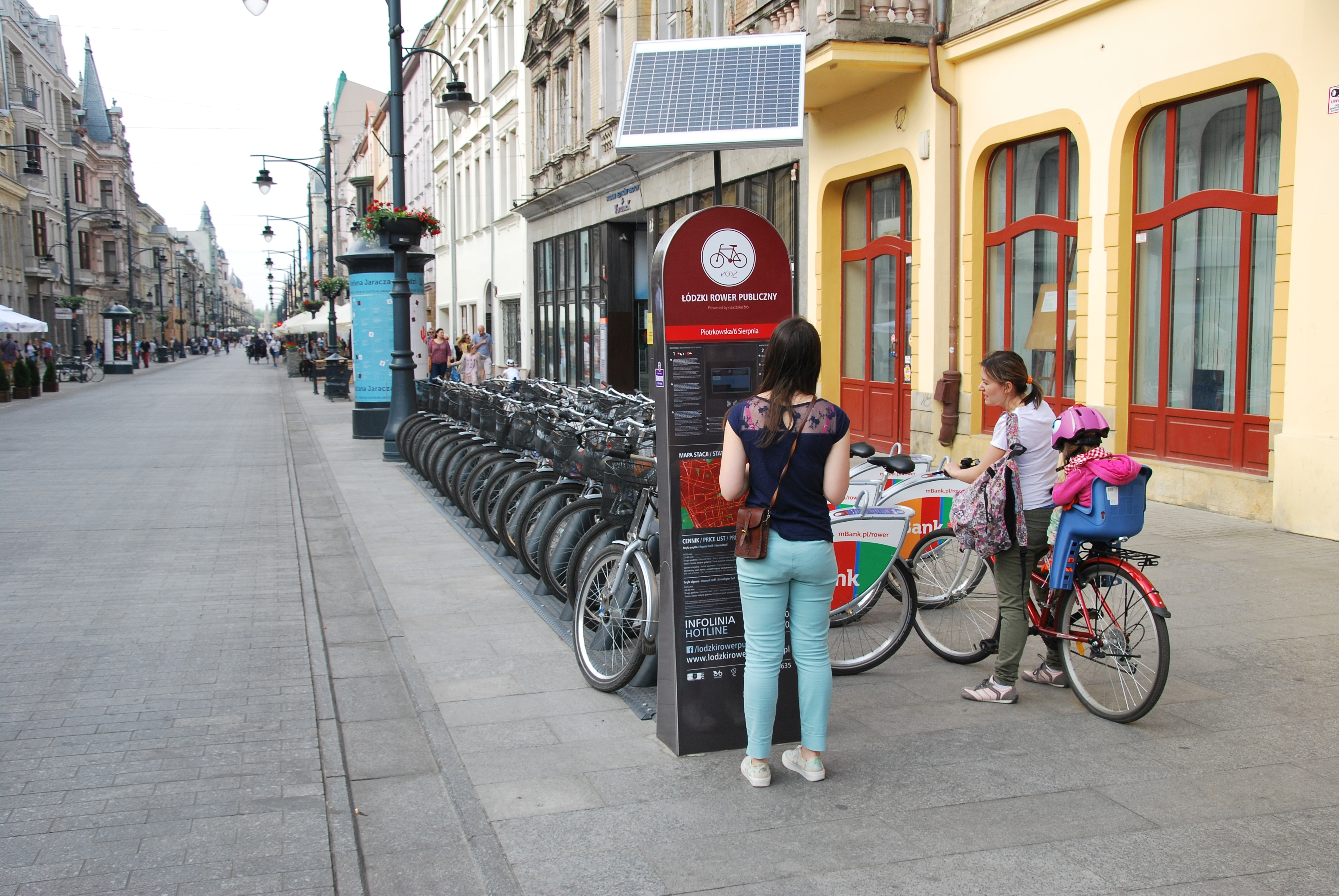 Łódzki Rower Publiczny, Piotrkowska Street